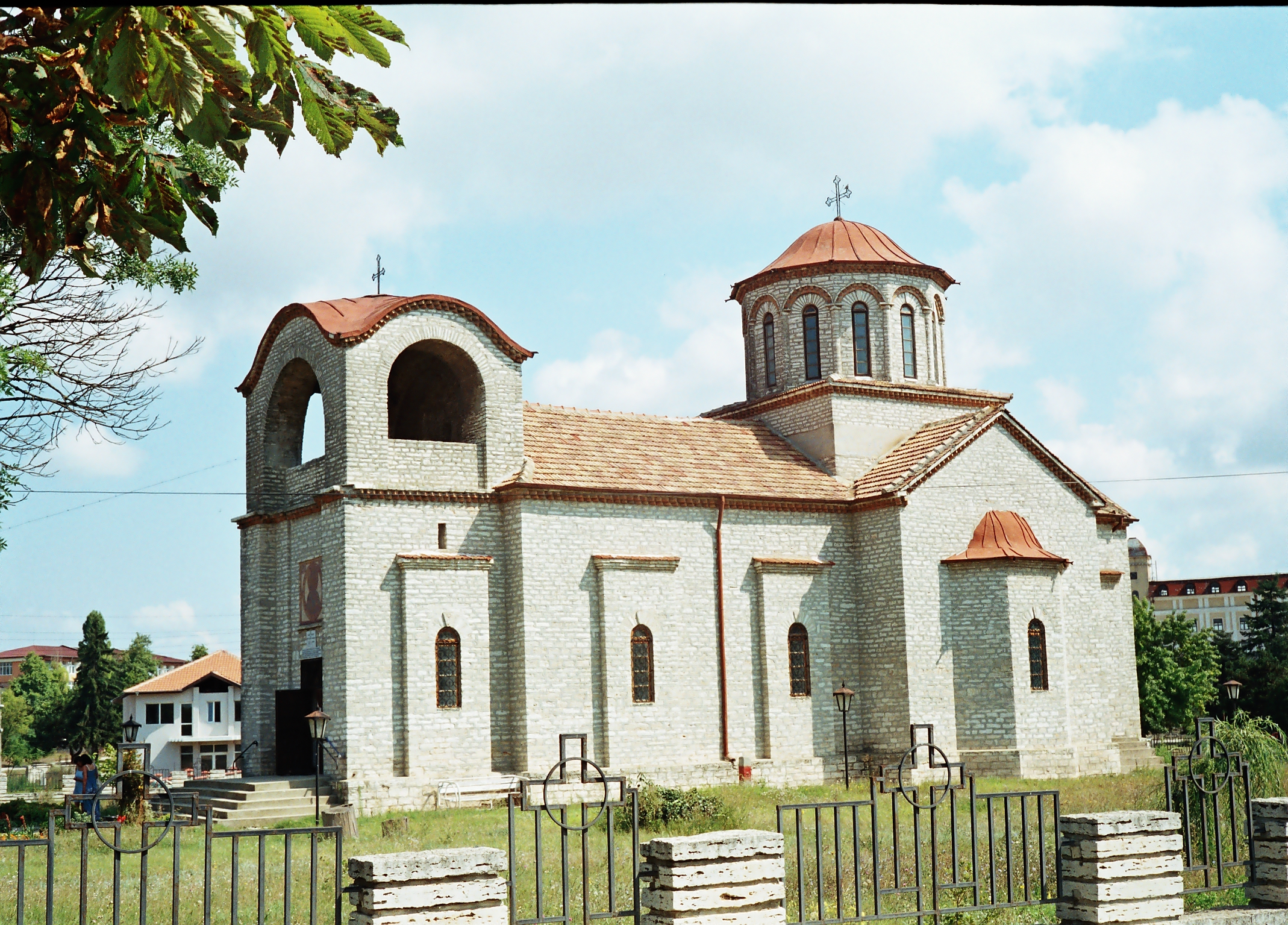 Church St.Petka in Balchik, Bulgaria